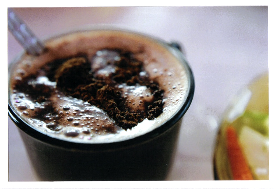 A cup of Nestlé Milo, a brand of chocolate and milk beverage.